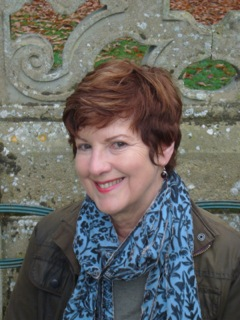 Portrait photo of Celia Rees Used on Celia Rees page